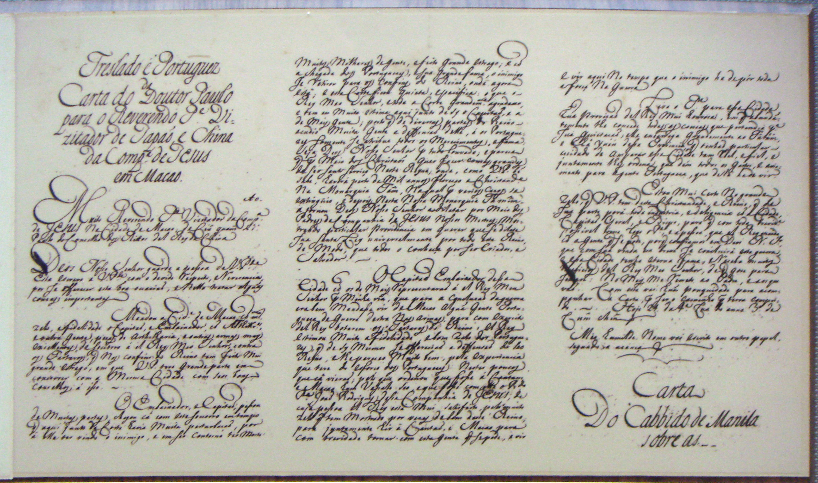 Portuguese letter from "Doctor Paulo" (Paul Xu or Xu Guangqi) to the king of Portugal